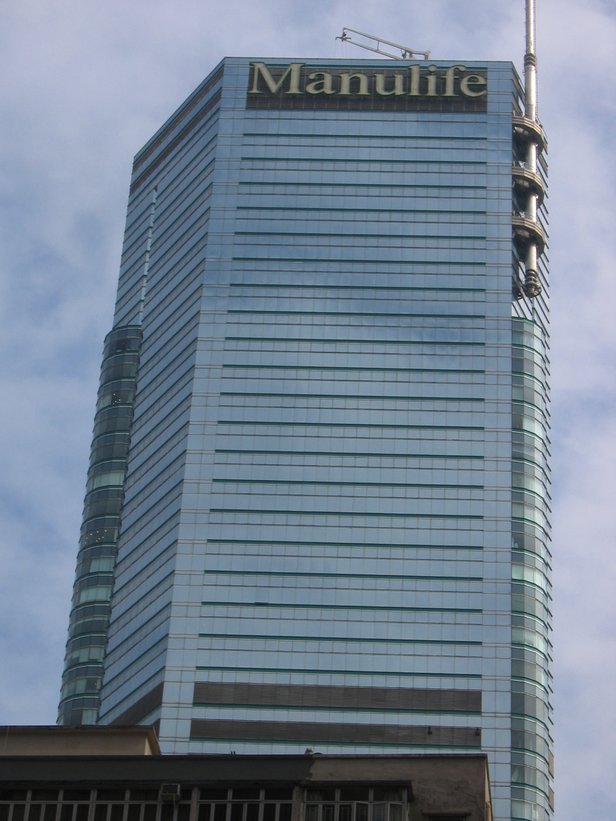 View of Manulife Plaza (The Lee Gardens), Causeway Bay, Hong Kong. Taken by self on 15 December 2005.